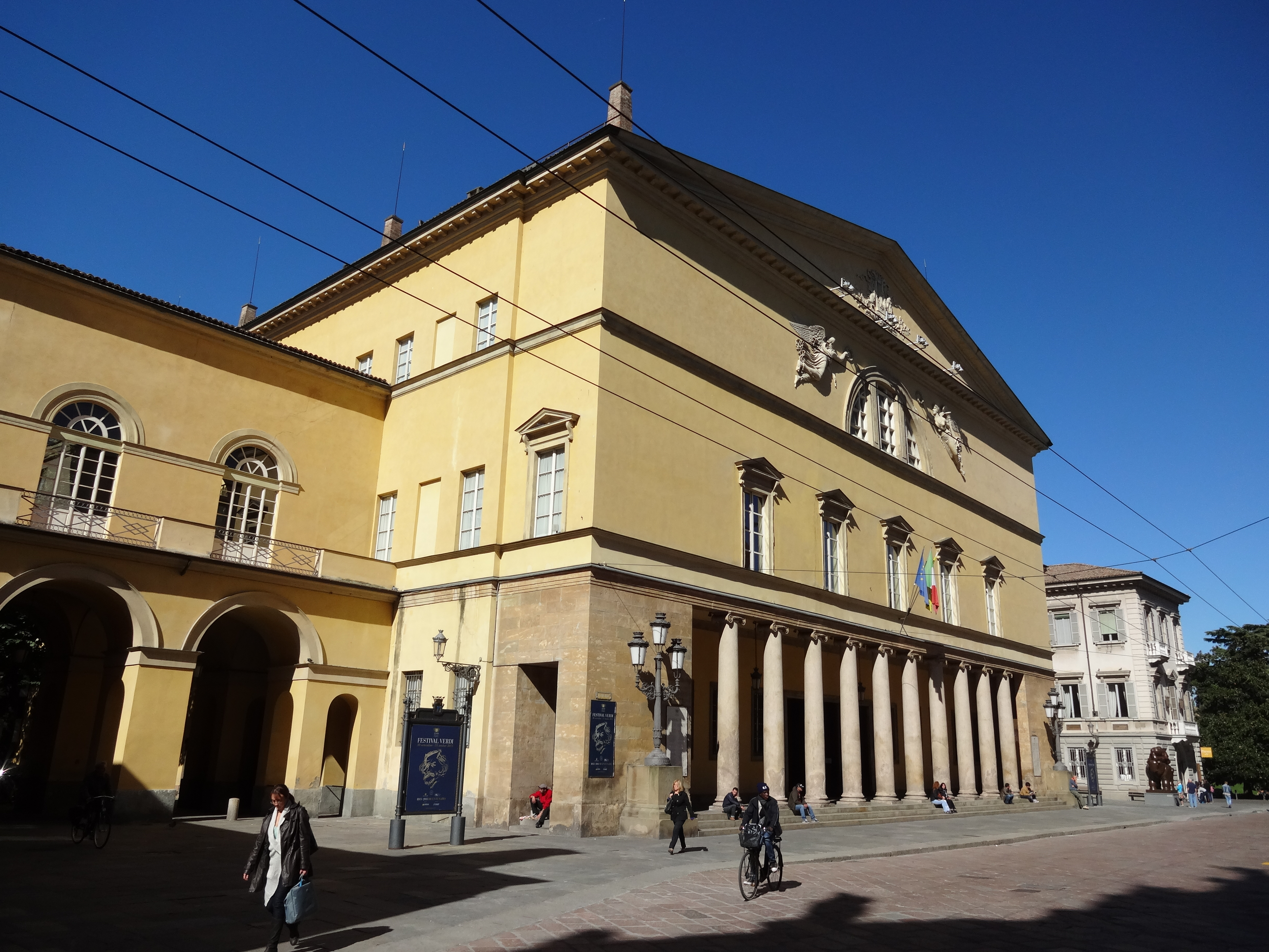 Exterior of the Teatro Regio opera house, Parma, Italy